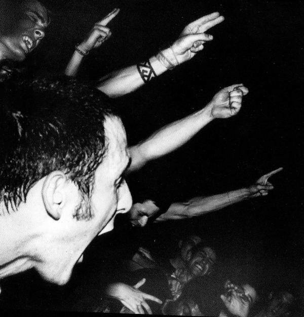 Gainesville Fest 1997 Photo: Unknown